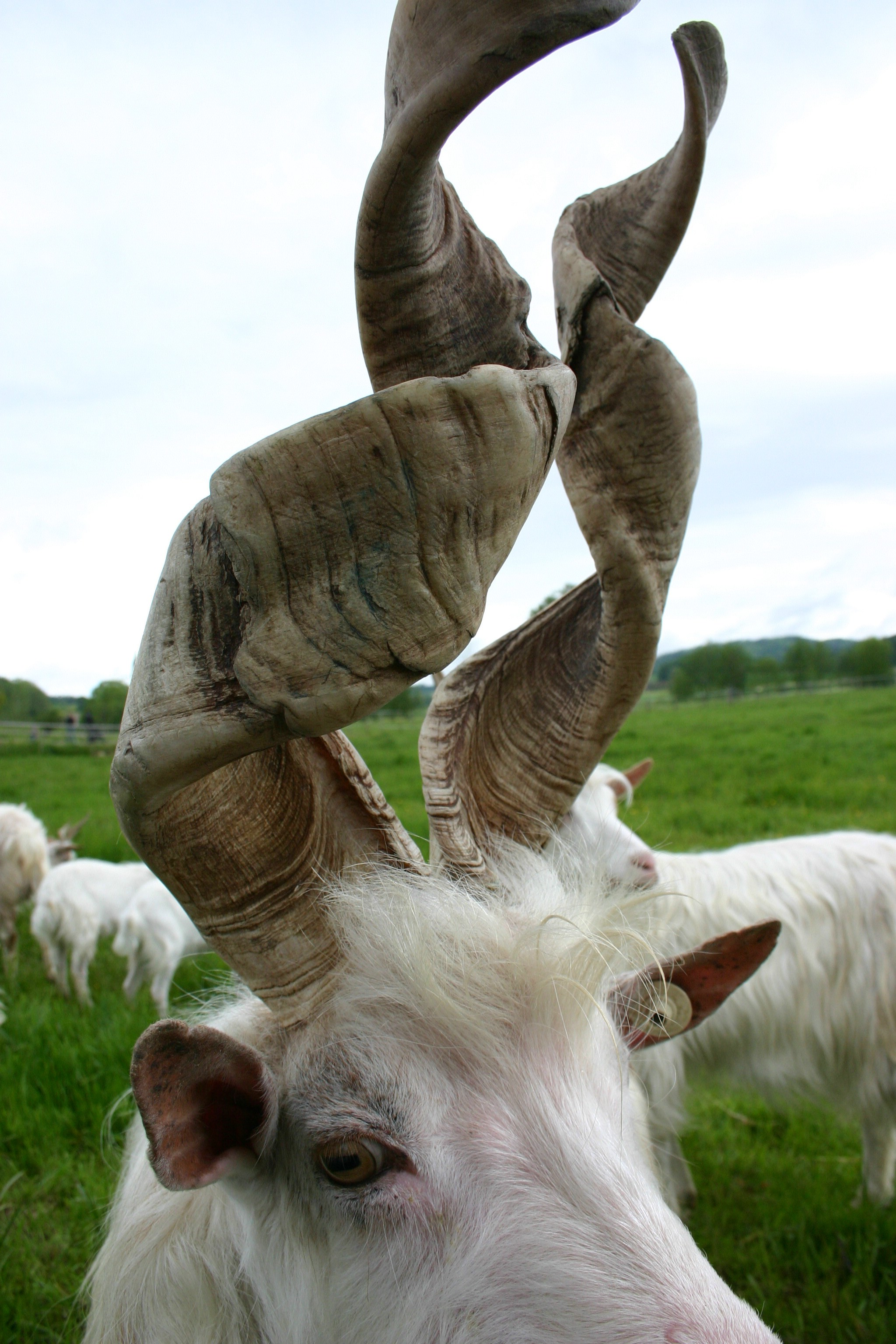 A goat of the